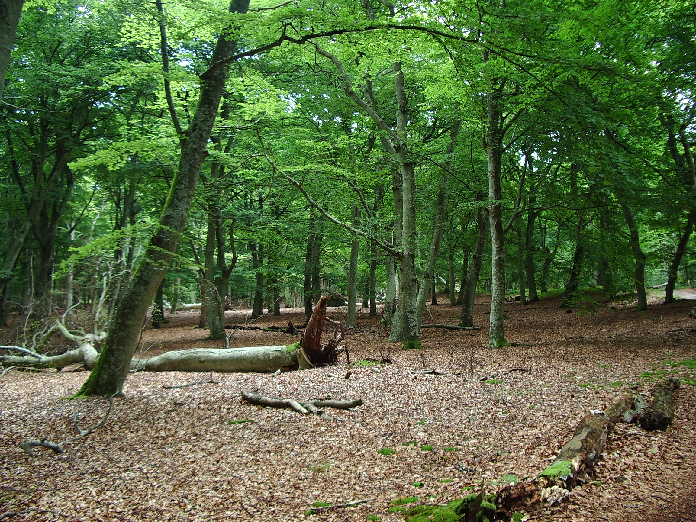 Beech wood on the island Hallands Väderö.